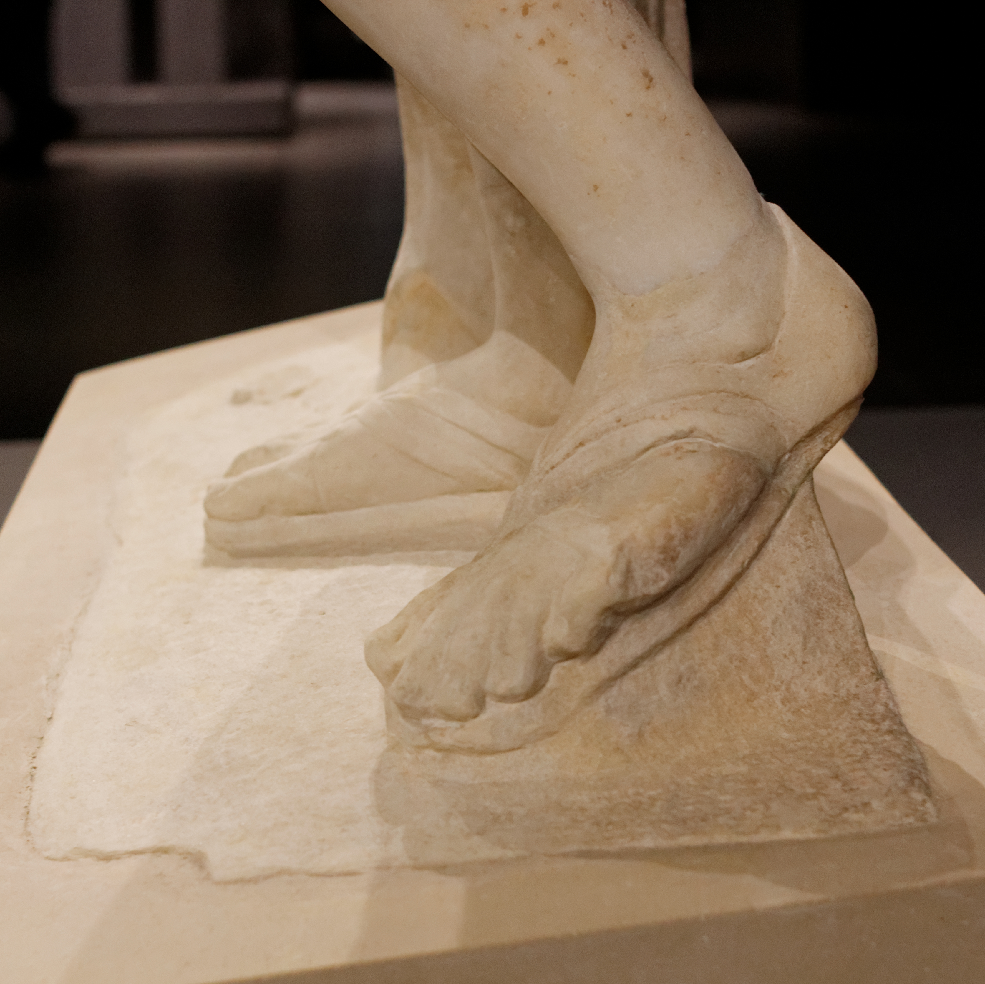 Depicted as a huntress, like the Diana of Versailles, derived from a Greek model of the fourth century BC., Artemis, wearing a short tunic, should bring the right hand to his quiver to shoot an arrow. The doe that accompanied her has disappeared.